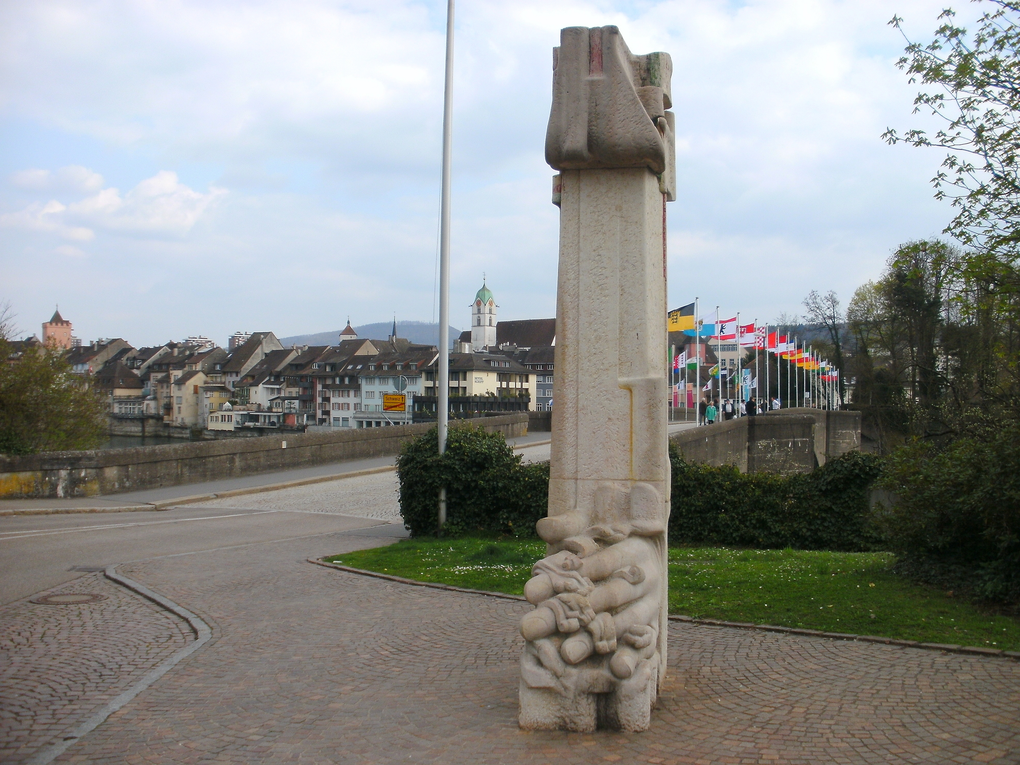 The Old Rhine Bridge in Rheinfelden. View from Rheinfelden (Baden) in Germany to Rheinfelden in Switzerland. The Muschelkalk stele in the foreground, made by the local sculptor Leonhard Eder, symbolizes the taming of water power at the old hydroelectric power plant in Rheinfelden, which was the origin of the German city Rheinfelden (Baden).